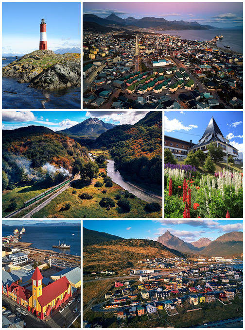 Montage of the city of Ushuaia, Argentina.